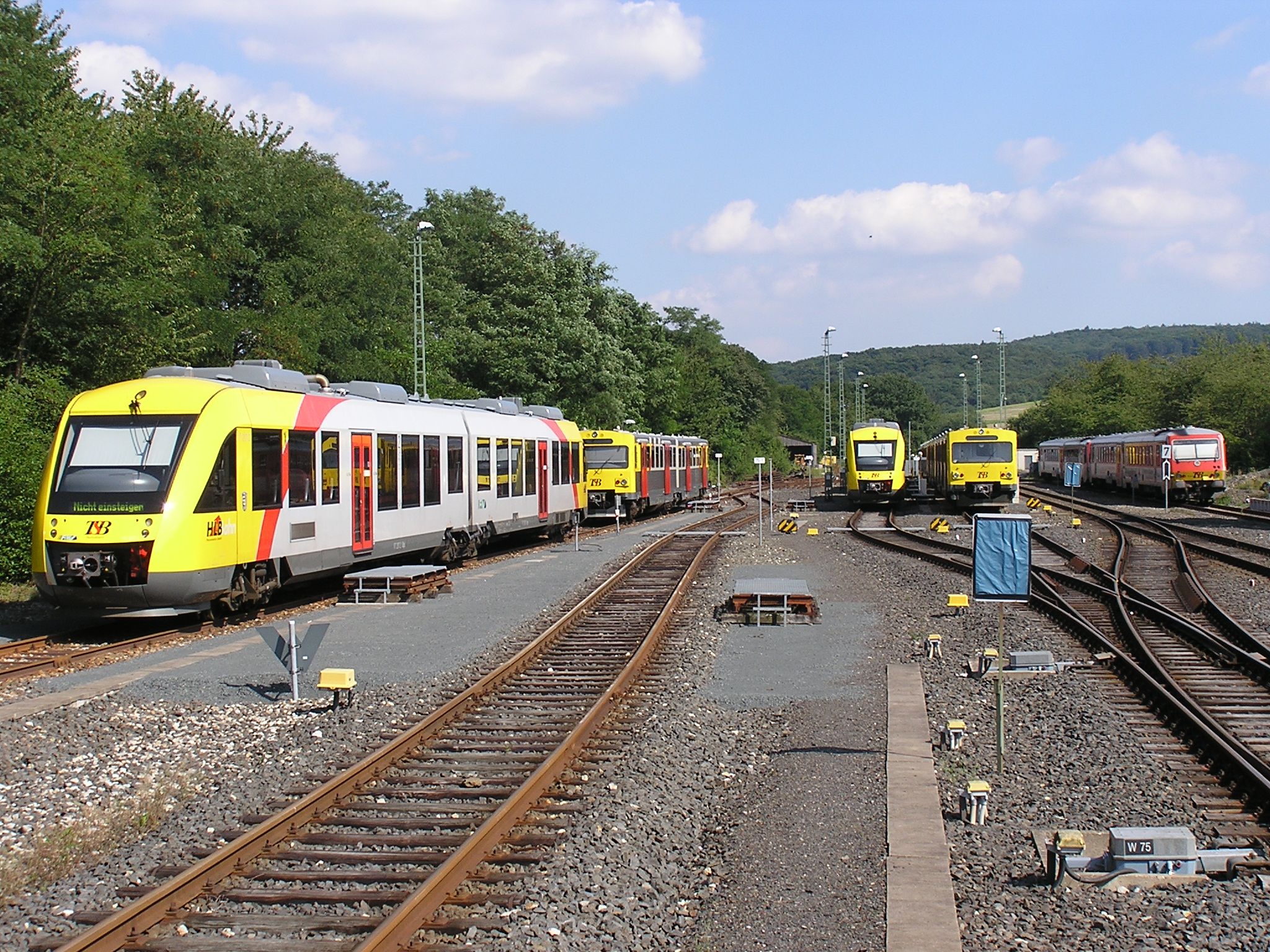 2 LINT 41, some VT 2E and 2 VT 628 wait on a sunday for their operation on the Taunusbahn